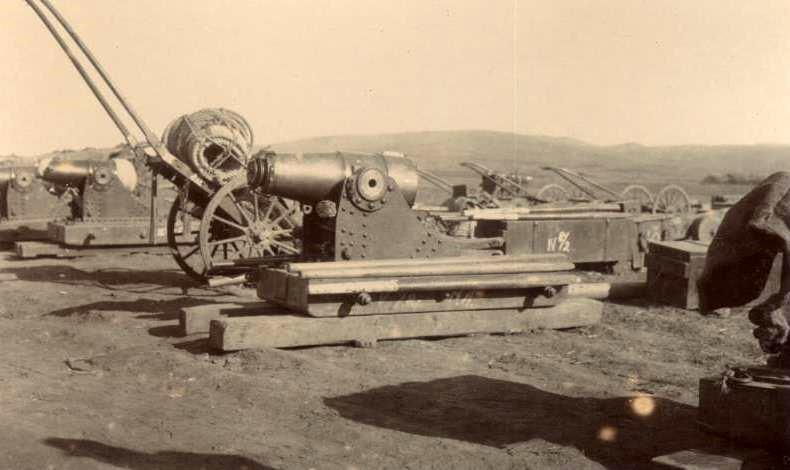 A 15 cm Japanese mortar of unknown model at the Russo-Japanese front, photographed in his travel from from Dalny to Port Arthur (Russian Empire), on January 2 1905, by Admiral Ernesto Burzagli (1873-1944), Italian naval attaché in Tokio, who sailed from Yokohama (Japan) on a diplomatic mission to Port Arthur, during the Russo-Japanese War. The original picture, scanned by Emiliano Burzagli, belongs to the Private archive of Burzaghi family, Italy.